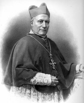 Antonio Benedetto Antonucci, cardinal of the Roman Catholic Church and archbishop of Ancona